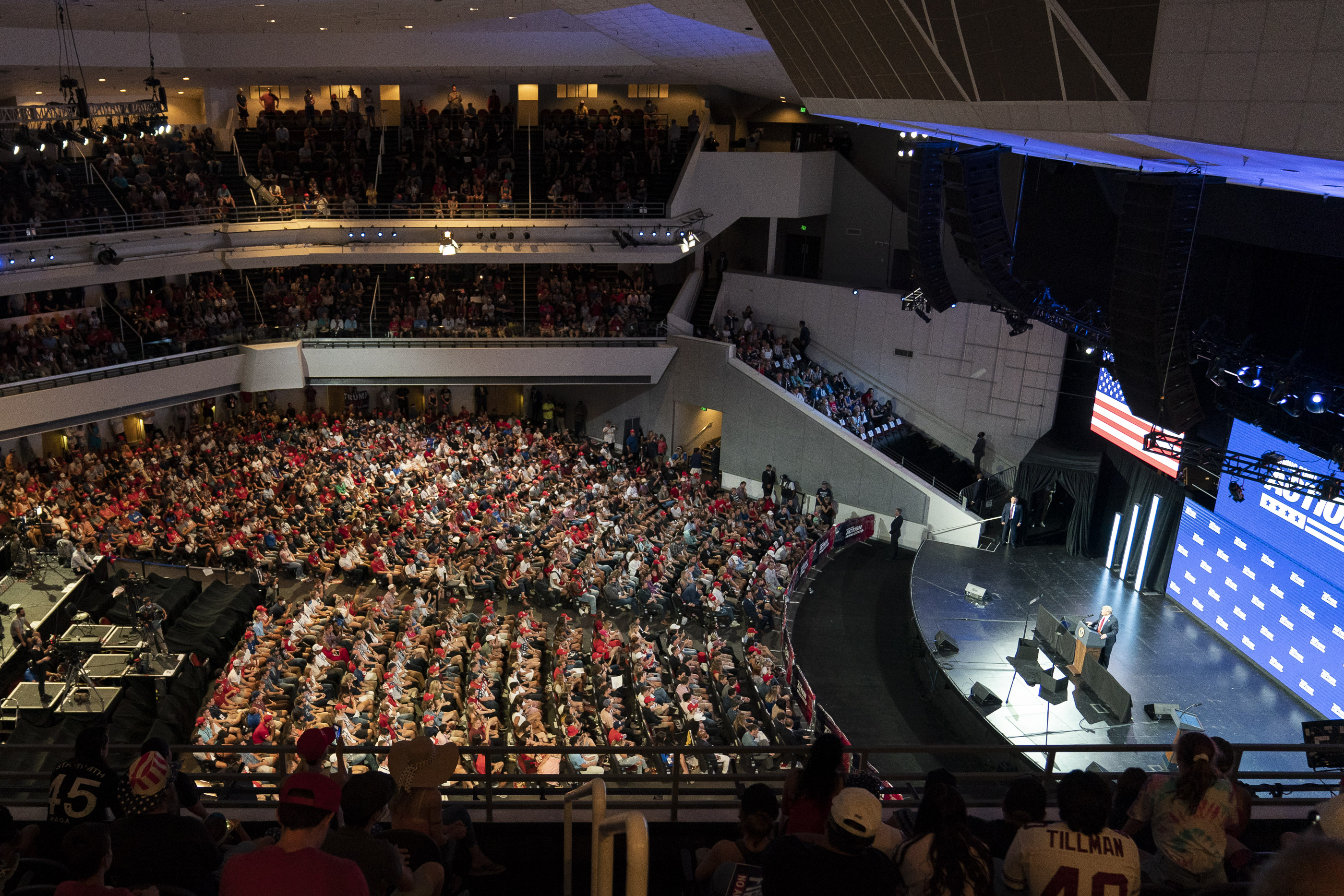 President Donald J. Trump delivers remarks at the Turning Point Action-Address to Young Americans event Tuesday, June 23, 2020, at the Dream City Church in Phoenix, Ariz. (Official White House Photo by Shealah Craighead)